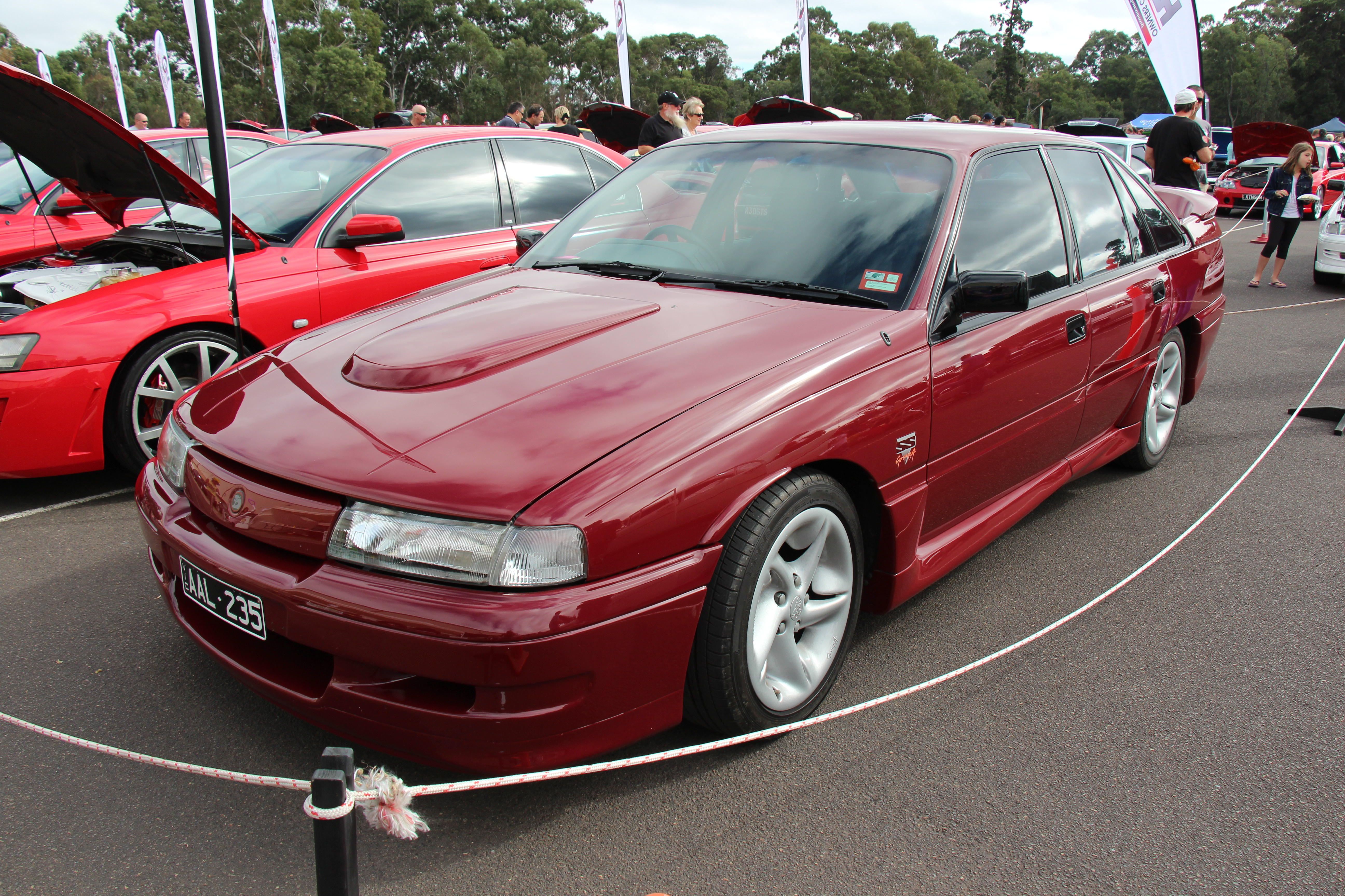 02/1991 VN HSV SS Group A